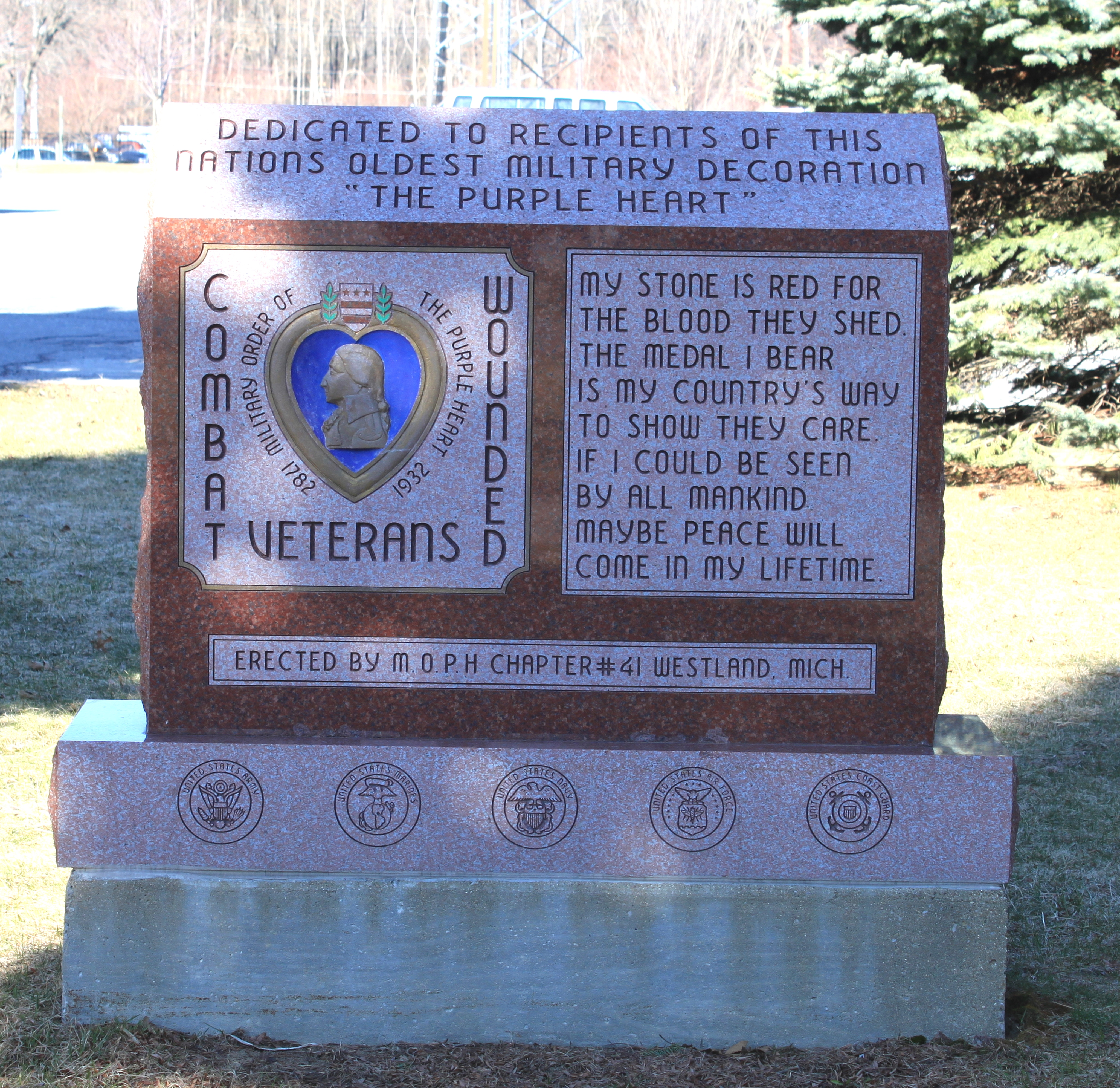 Purple Heart Memorial, in front of the Westland Michigan City Hall, 36601 Ford Road